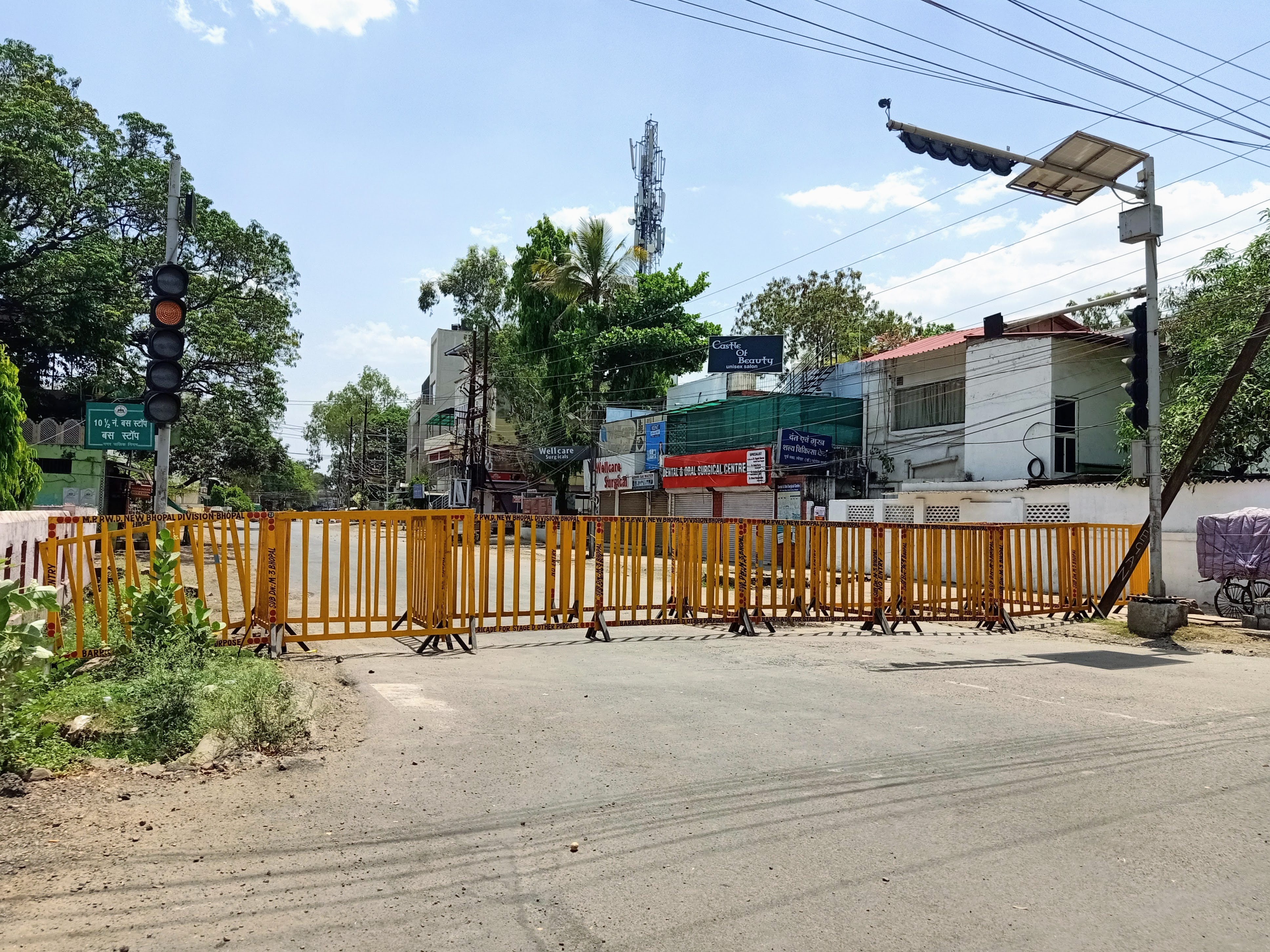 Zone wise lockdown in new Bhopal due to Covid-19